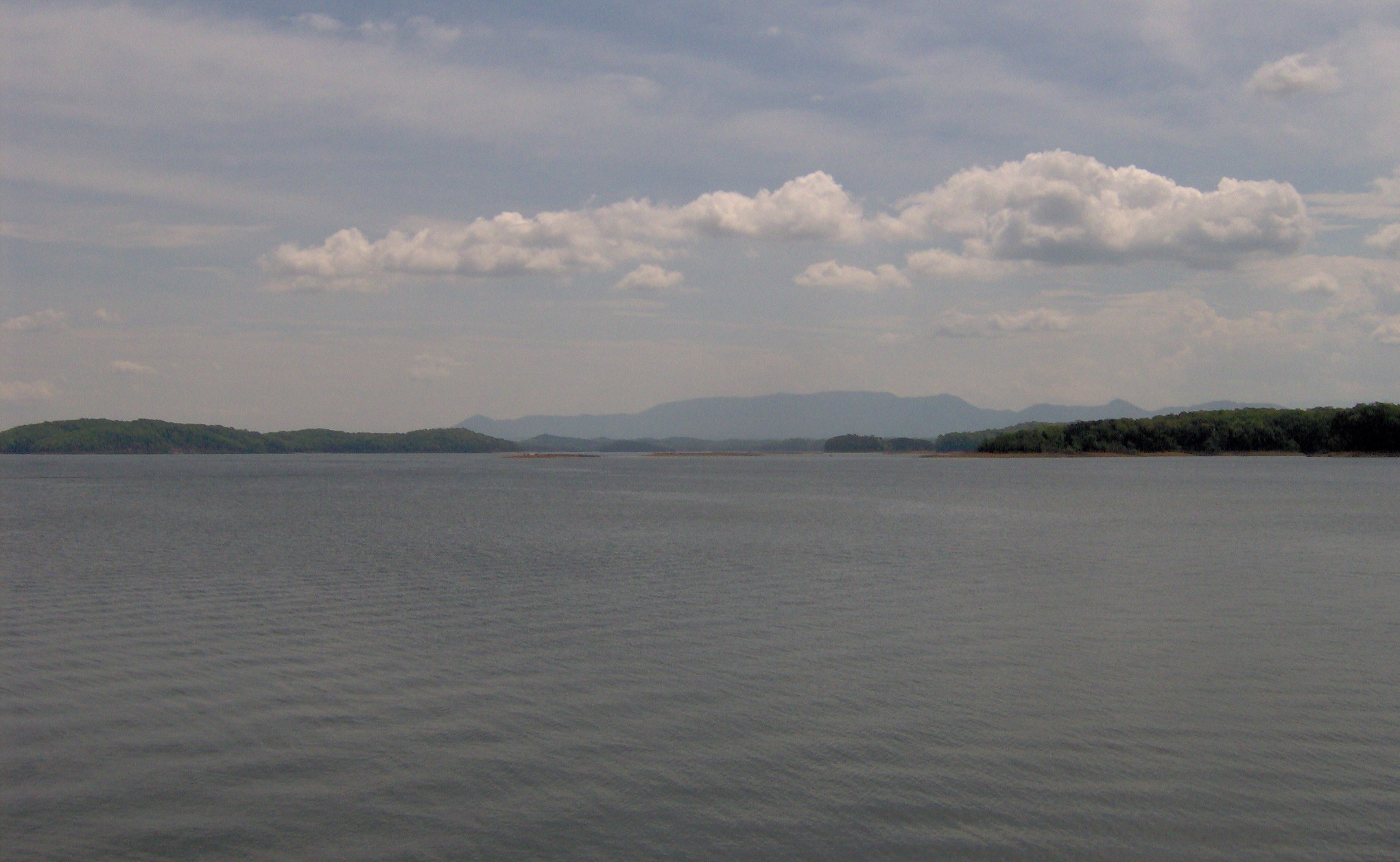 The now-submerged site of Zimmerman's Island, looking east from the Douglas Dam boat ramp in Sevier County, Tennessee, in the southeastern United States. The county line crosses the lake, and the island itself was entirely in Jefferson County. Zimmerman's Island is believed to have been the location of the capital of the ancient chiefdom of Chiaha, visited by Spanish explorers Hernando De Soto in 1540 and Juan Pardo in 1567. A fortified village on the island was called "Chiaha" by De Soto and "Olamico" by Juan Pardo. The island was completely submerged by the completion of Douglas Dam in 1943. English Mountain, the highest of the Foothills of the Great Smoky Mountains, spans the horizon.